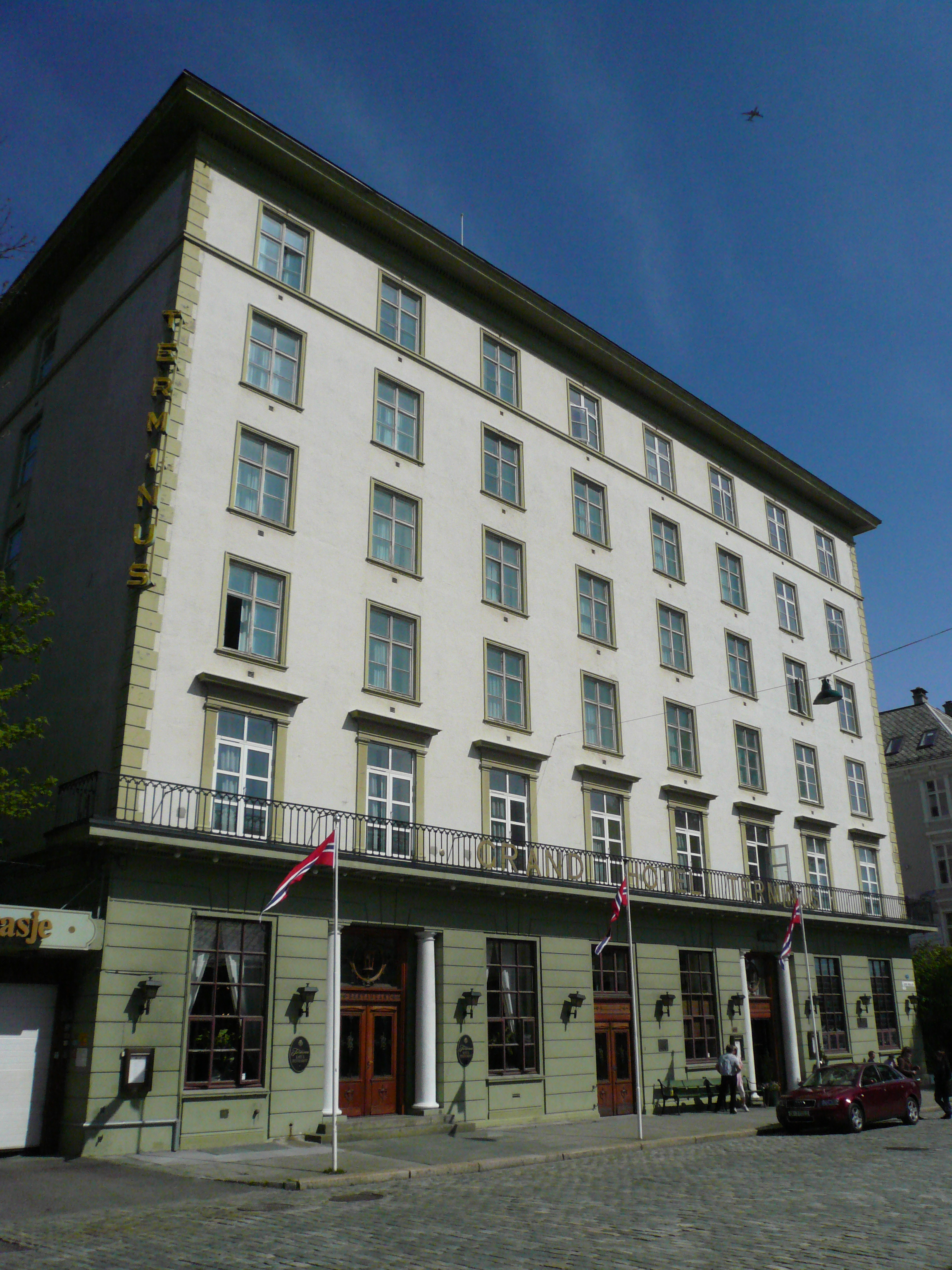 Grand hotel terminus, Bergen, Norway, from 1928. Architects Fredrik Arnesen and Arthur Darre Kaarbø.